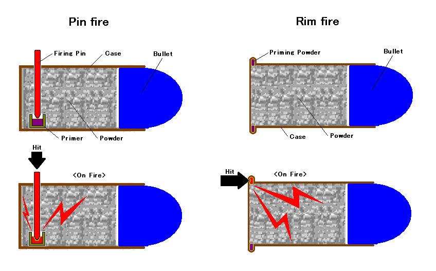 Compare Pinfire and Rimfire cartridge